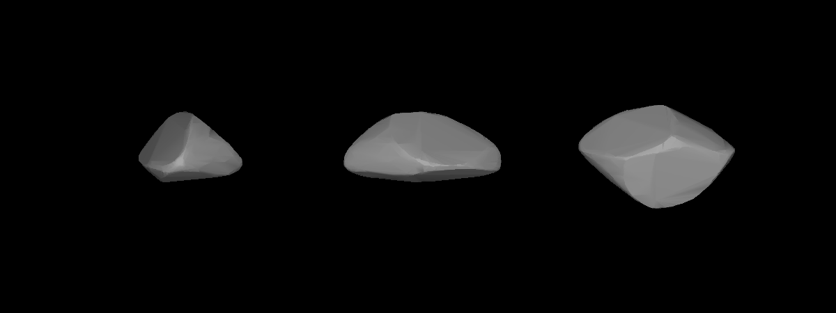 A three-dimensional model of 1301 Yvonne that was computed using light curve inversion techniques.